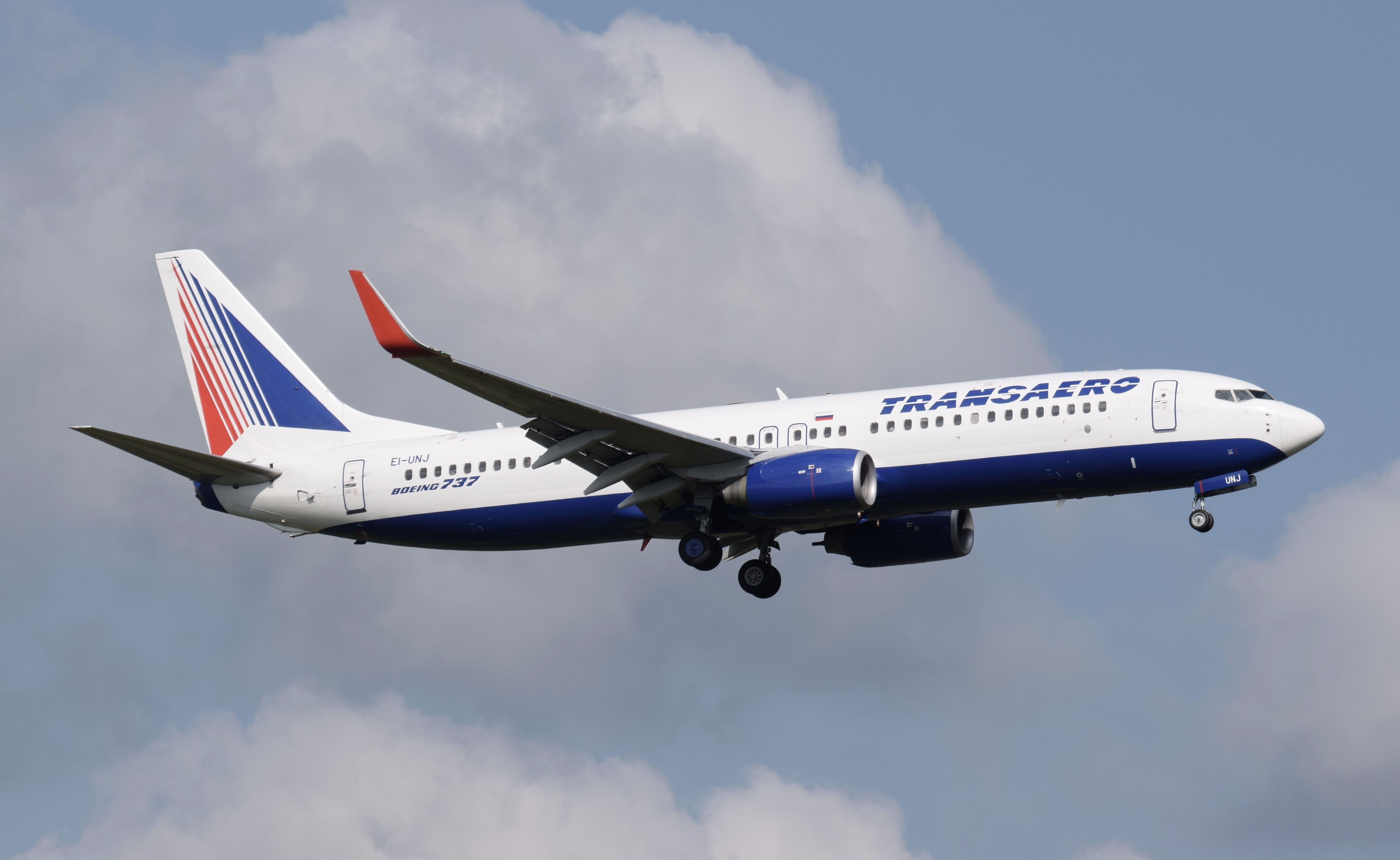 Transaero Airlines Boeing 737-800 (EI-UNJ) arrives London Heathrow Airport, England.